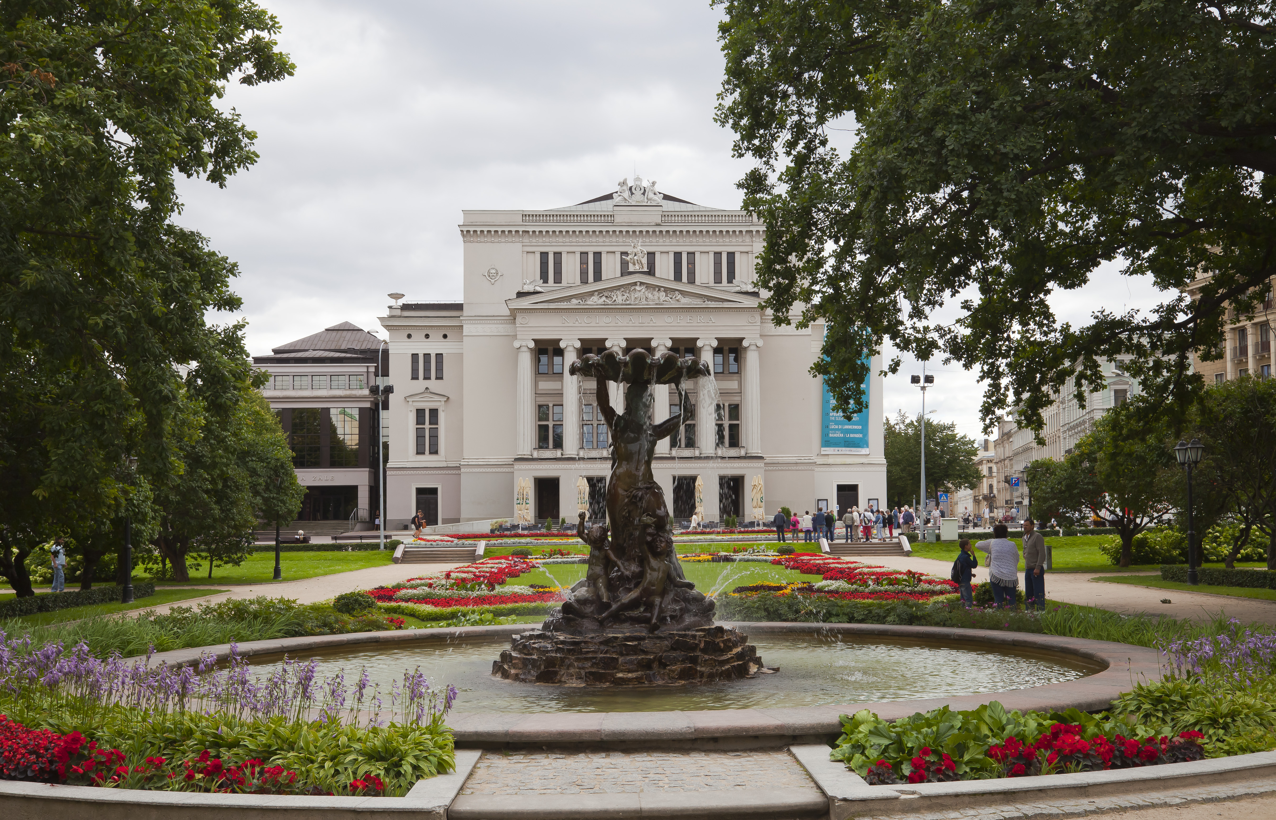 Latvian National Opera, Riga, Latvia